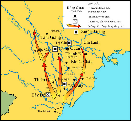 Nghĩa quân Lam Sơn tiến ra Bắc